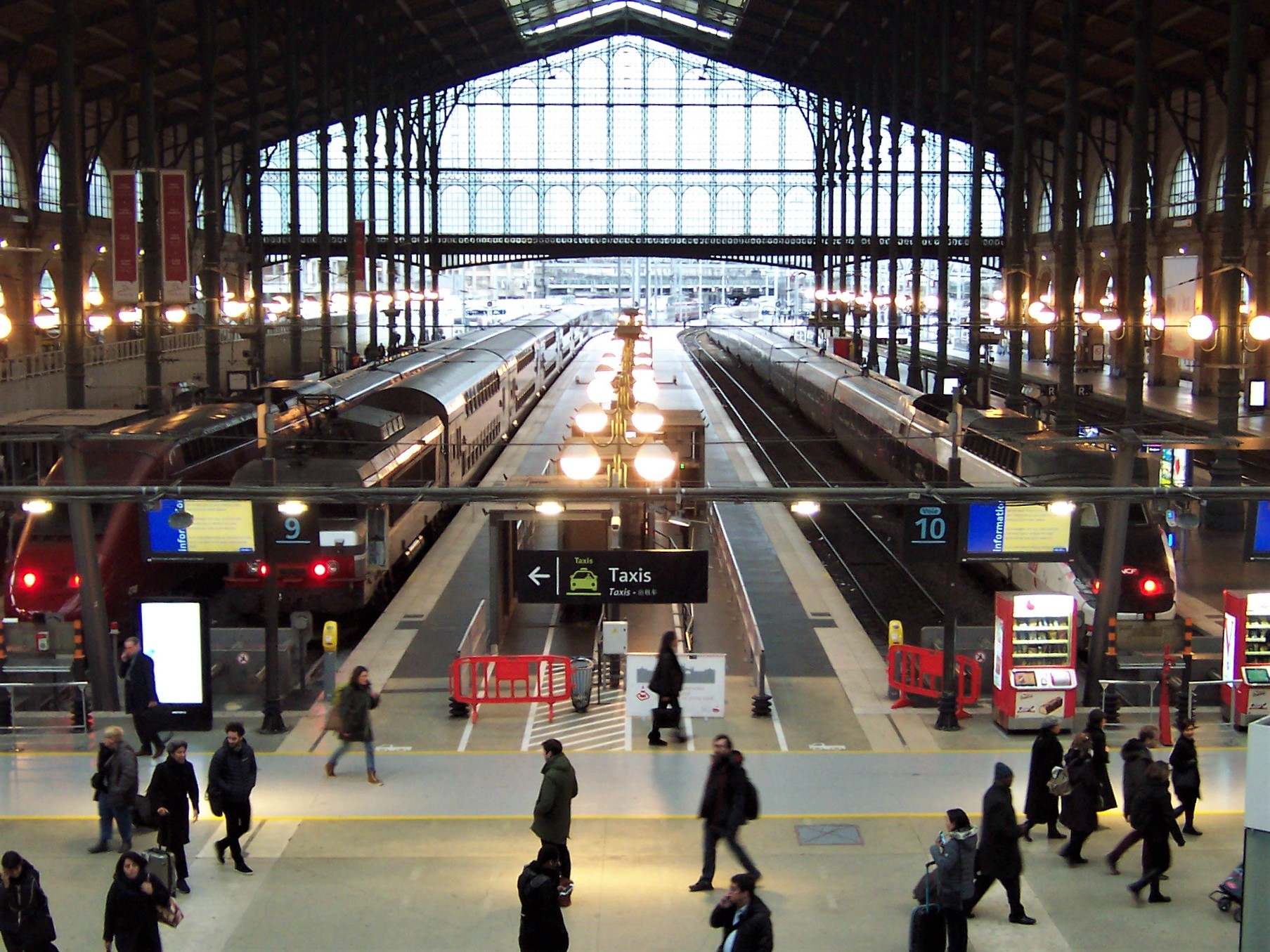 Taken from the Eurostar check-in on the first floor